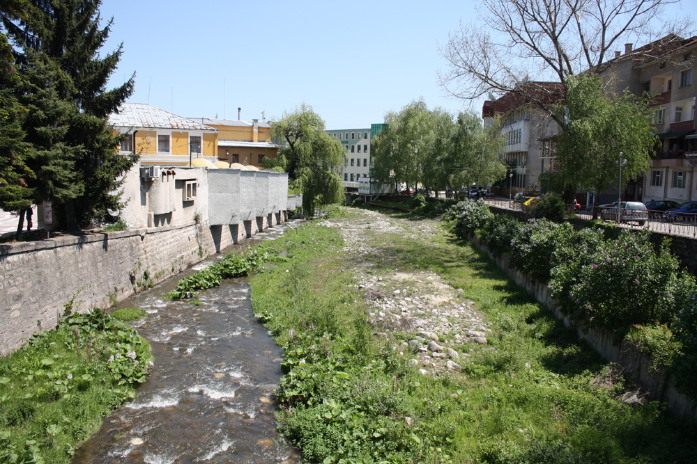 Old River through Peshtera